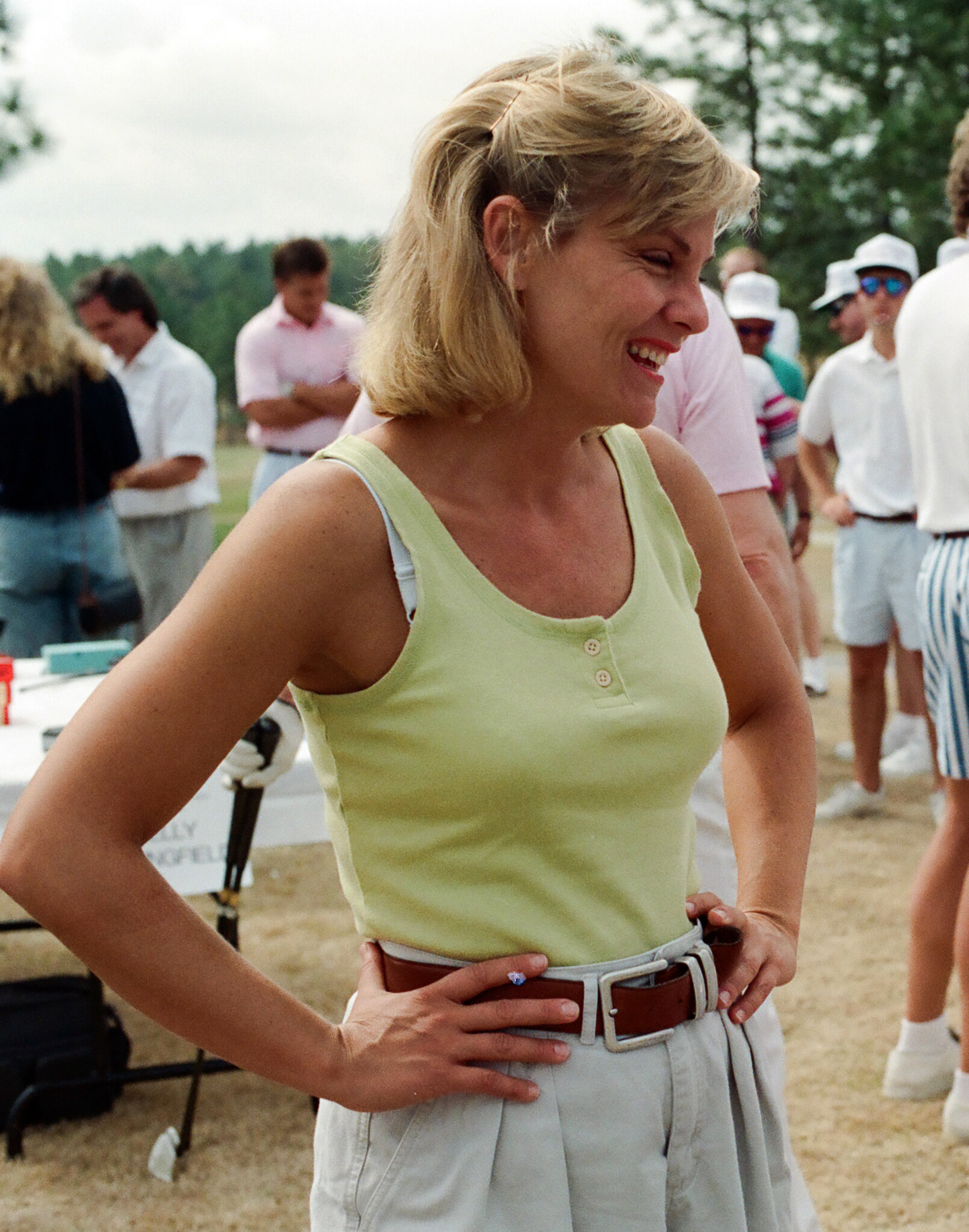 Actress Kim Zimmer plays charity golf at the Fayetteville Dogwood Festival in Fayetteville, NC. ca 1994.